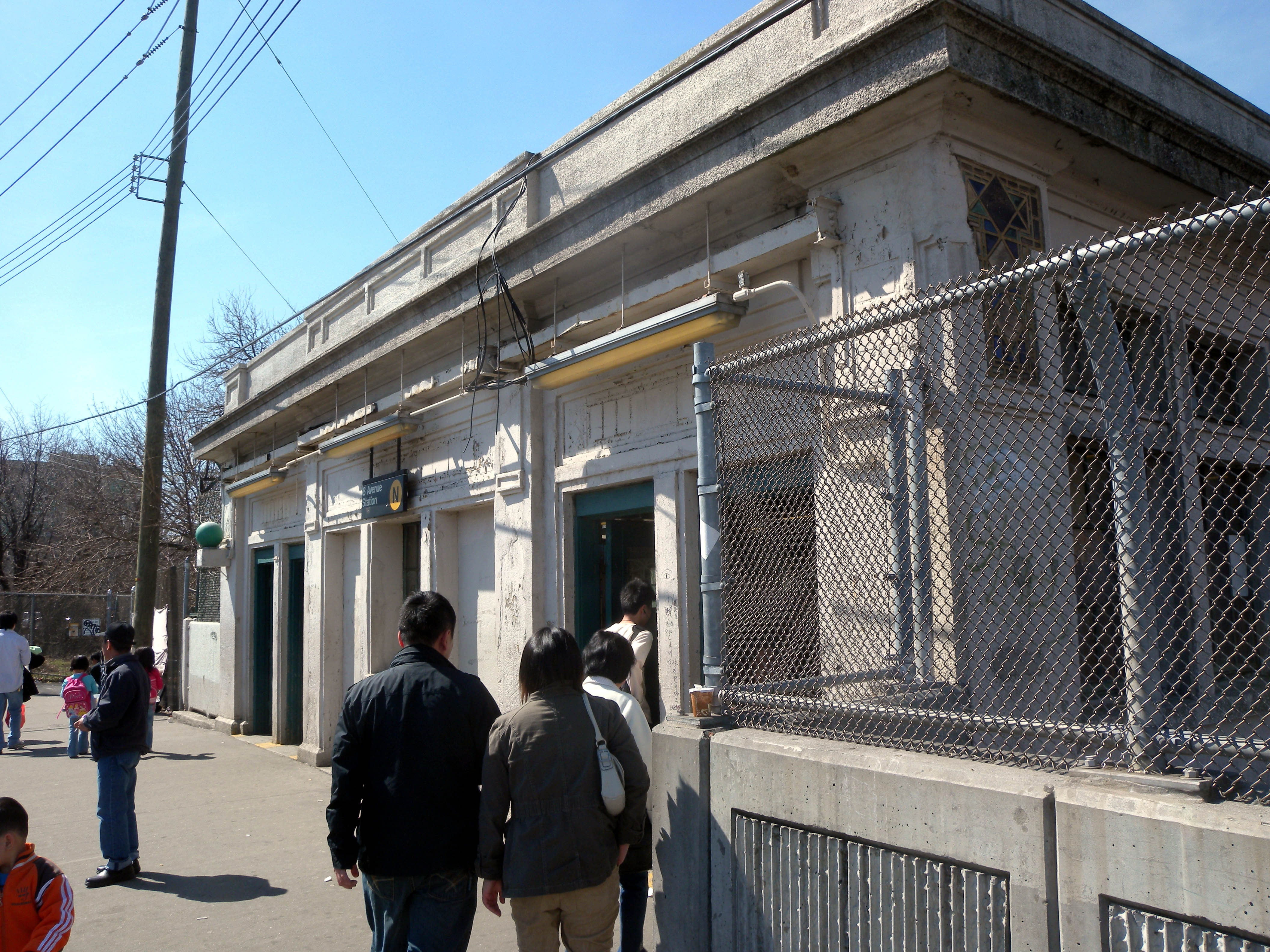 Looking southwest at Eighth Avenue (BMT Sea Beach Line) station on a sunny early afternoon.